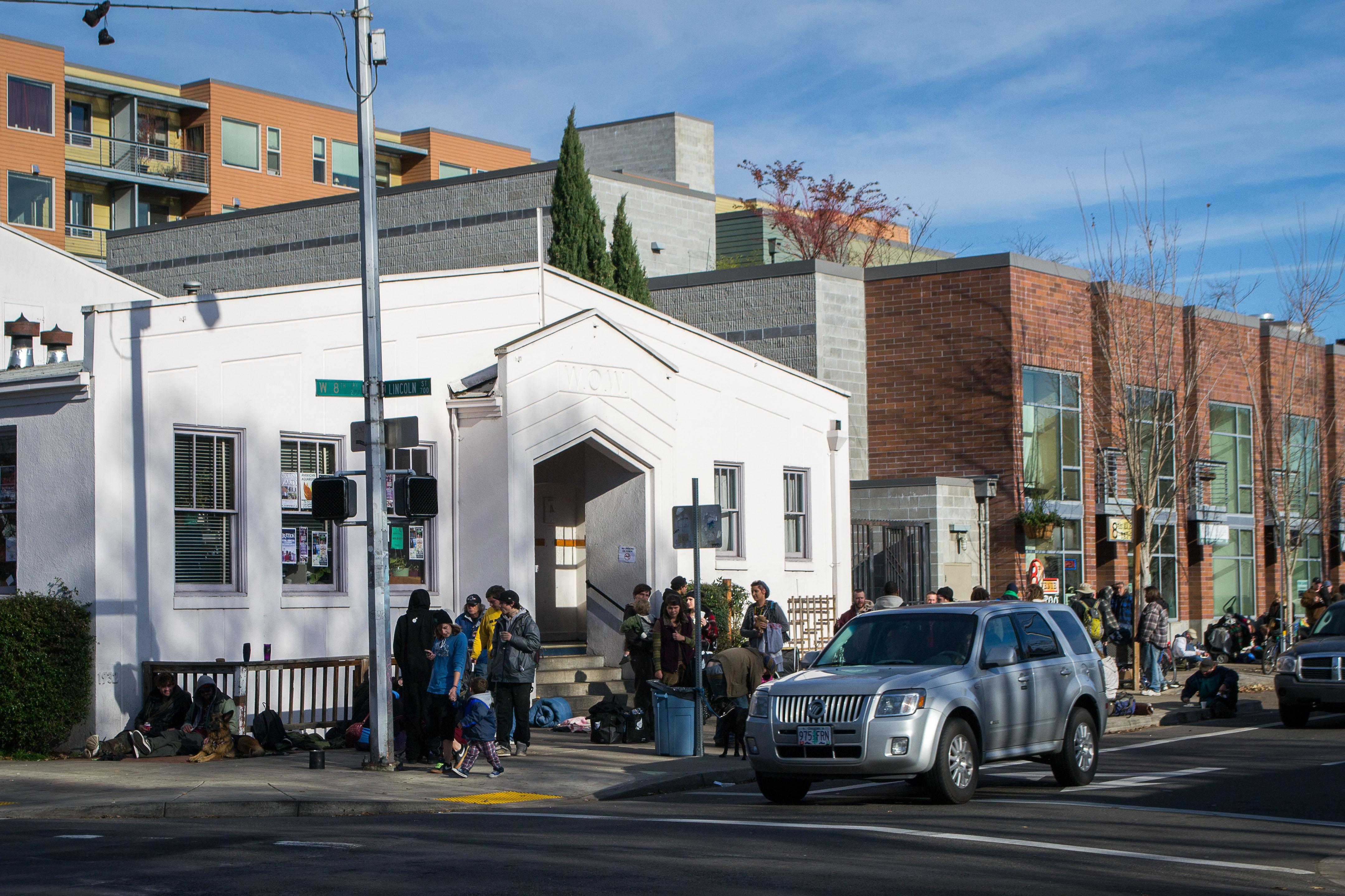 People arrive at the WOW Hall in Eugene, Oregon, for complimentary Thanksgiving dinner